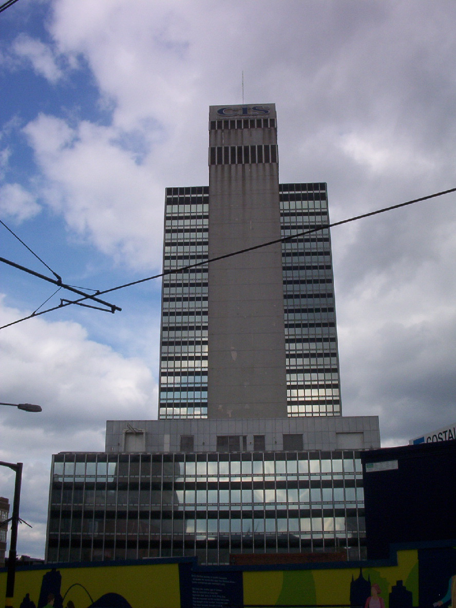 This is the service shaft of the CIS Building. Since this photo was taken, it has been entirely clad in solar panels, making it the UK largest solar installation.